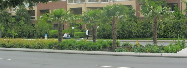 Trachycarpus Fortunei Palm Trees Lining 56 St, Tsawwassen, British Columbia